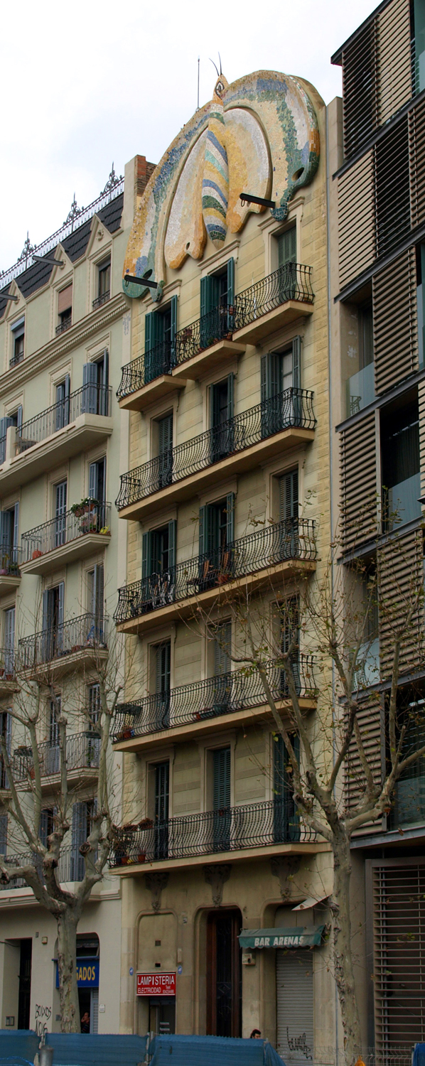 Casa Fajol - Catalan Modernisme (1912, Josep Graner i Prat)